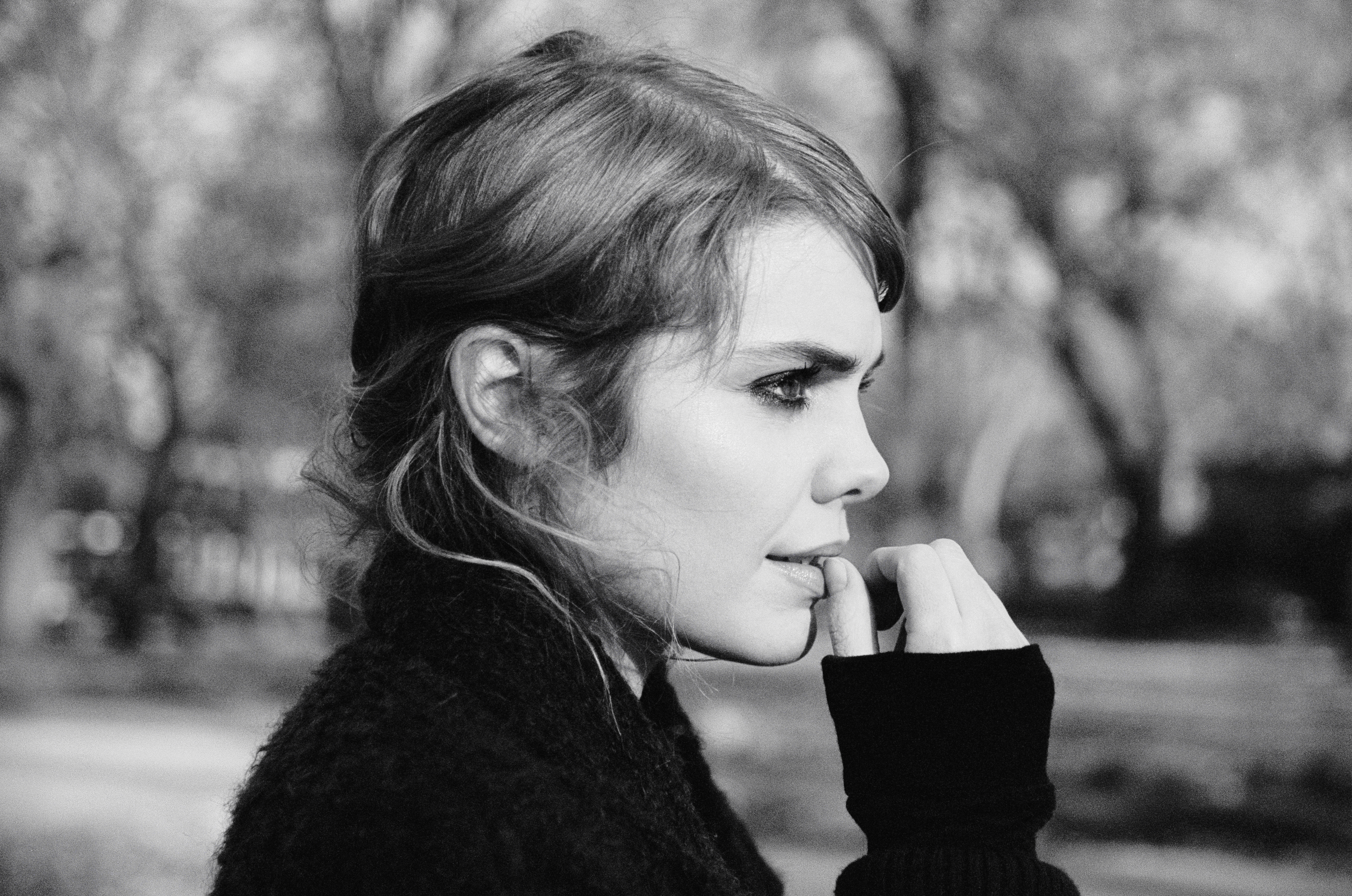 Cœur de pirate.